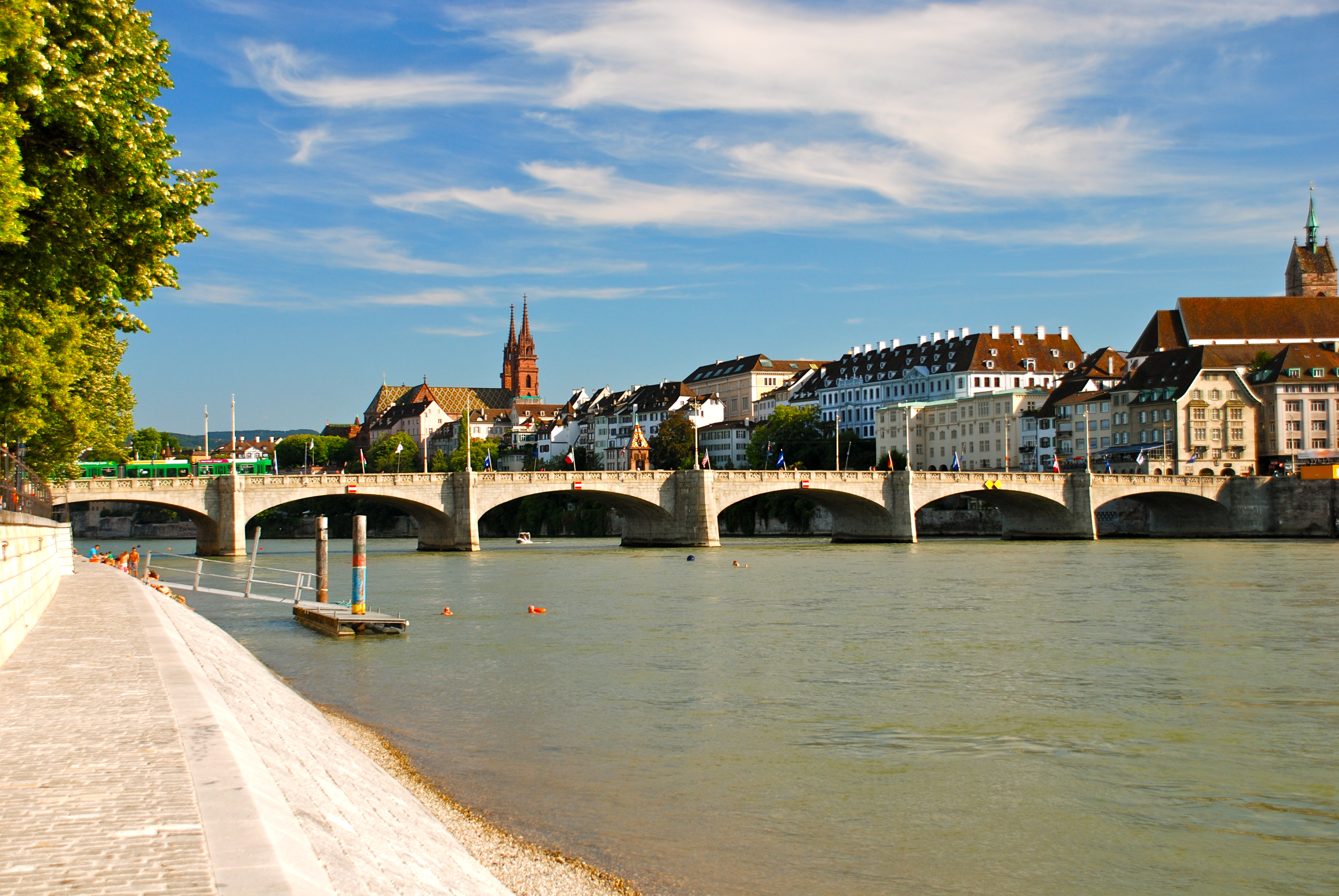 In 1225–1226 the Middle Bridge over the Rhine was constructed by Bishop Heinrich von Thun and lesser Basel (Kleinbasel) founded as a beachhead to protect the bridge. The bridge was largely funded by Basel's Jewish community which had settled there a century earlier.